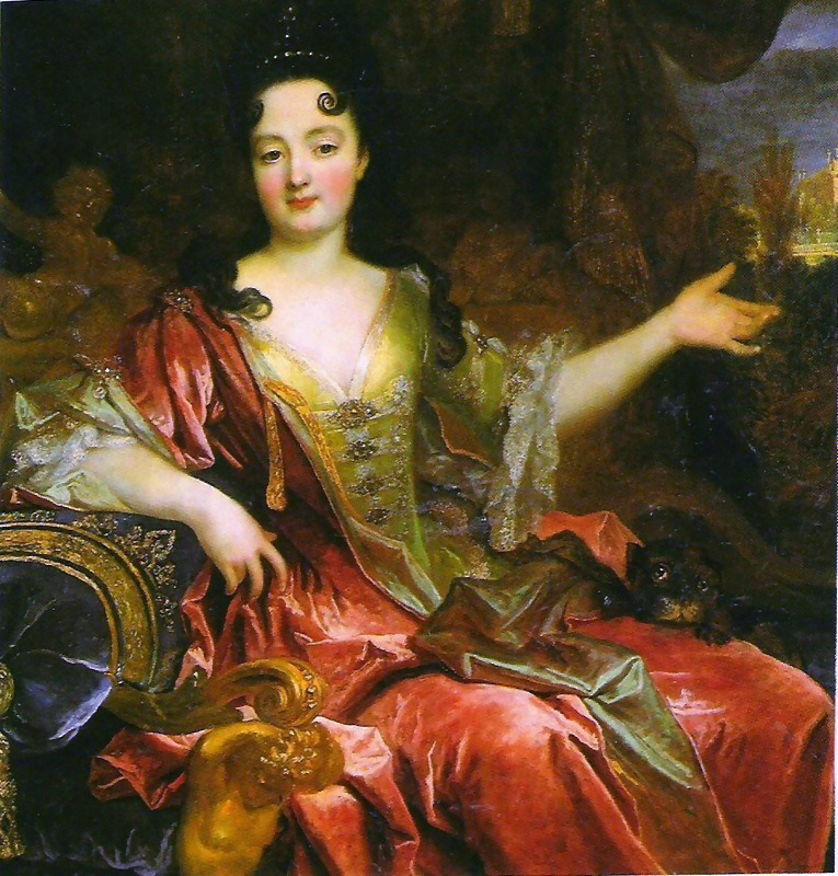 Portrait of Marie Anne de La Trémoille, princesse des Ursins (1642-1722)